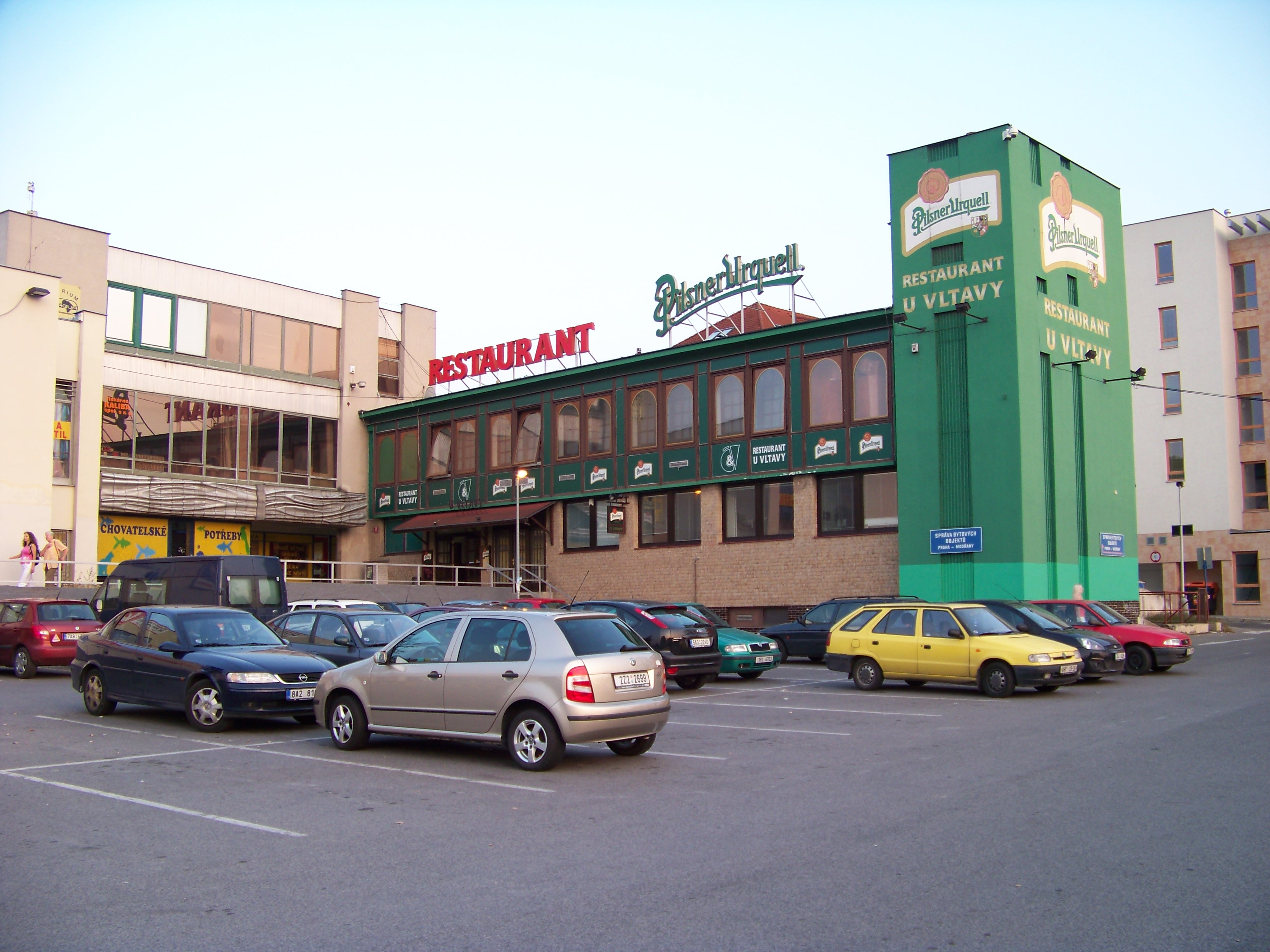 Modřany, Prague, the Czech Republic. Obchodní Square.